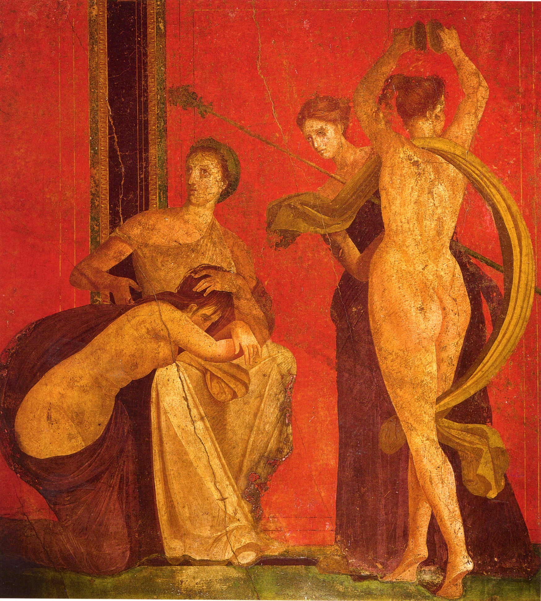 Fresco from the Sala di Grande Dipinto, Scene VIII in the Villa de Misteri (Pompeii).